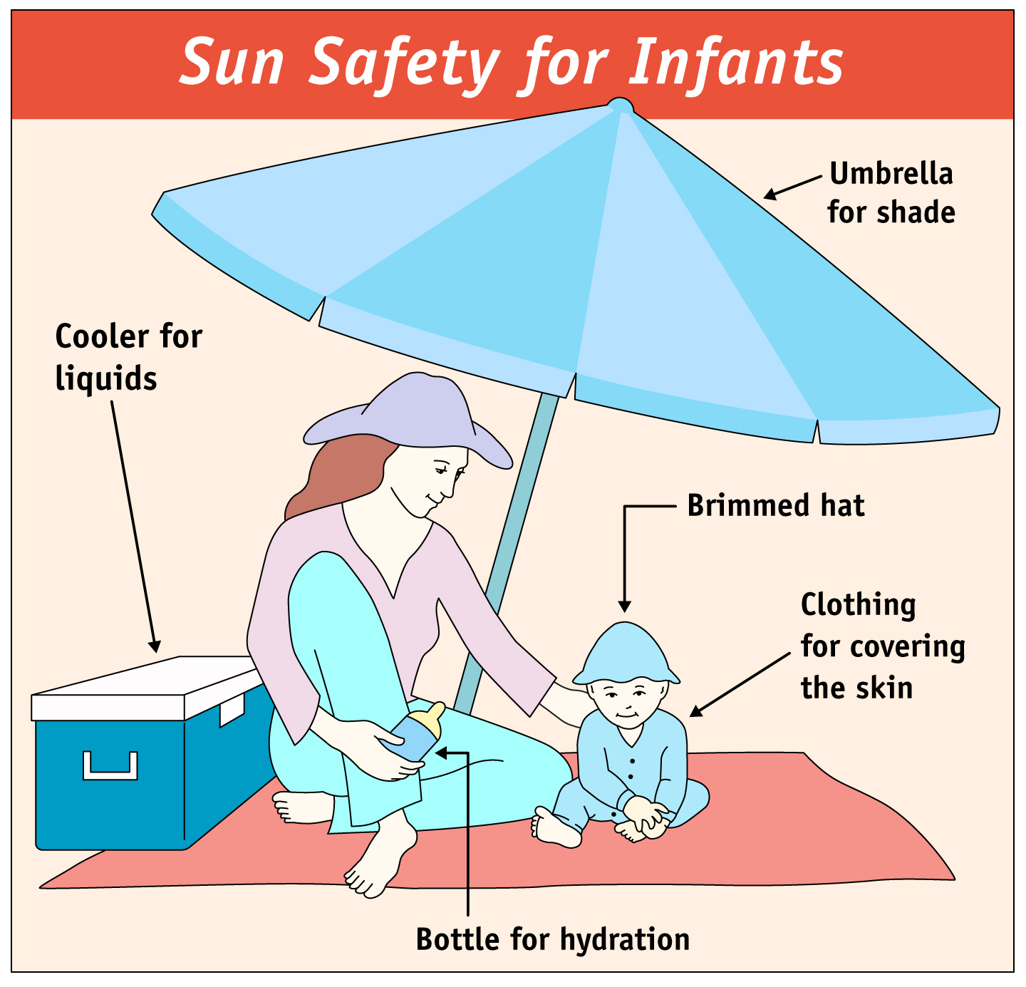 You're at the beach, slathered in sunscreen. Your 5-month old baby is there too. Should you put sunscreen on her? Not usually. The best approach is to keep infants under 6 months out of the sun, especially between 10:00 AM and 2:00 PM. But when you are outside together, here are some of the most important ways to protect your infant from the harmful rays of the sun: an umbrella and brimmed hat for shade, a cooler for liquids, a bottle for hydration, and clothing for covering the skin. For more information go to This information graphic is free of all copyright restrictions and available for use and redistribution without permission. Credit to the U.S. Food and Drug Administration is appreciated but not required. For more privacy and use information visit: FDA graphic by Michael J. Ermarth